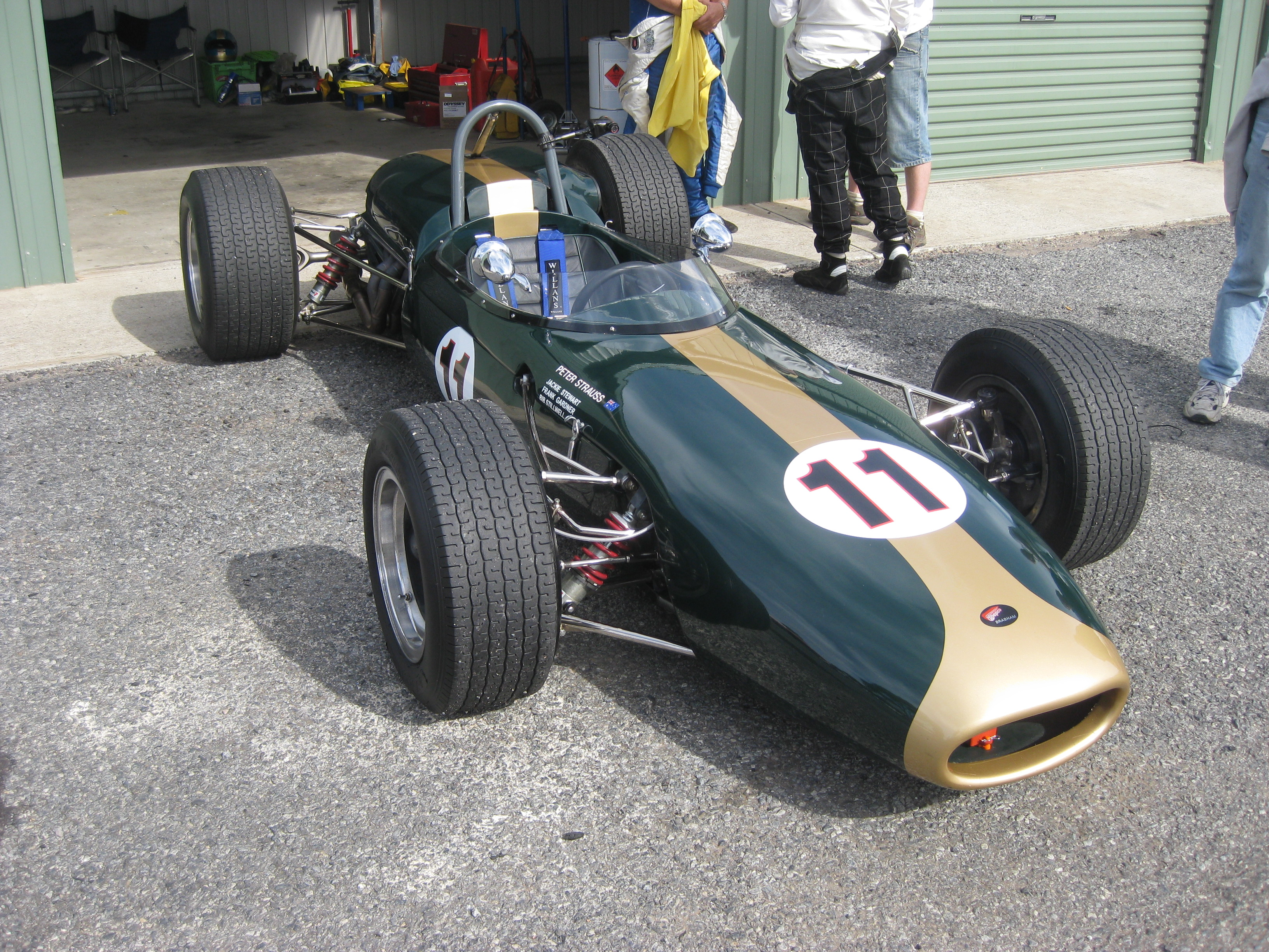 Repco Brabham BT11A of Peter Strauss